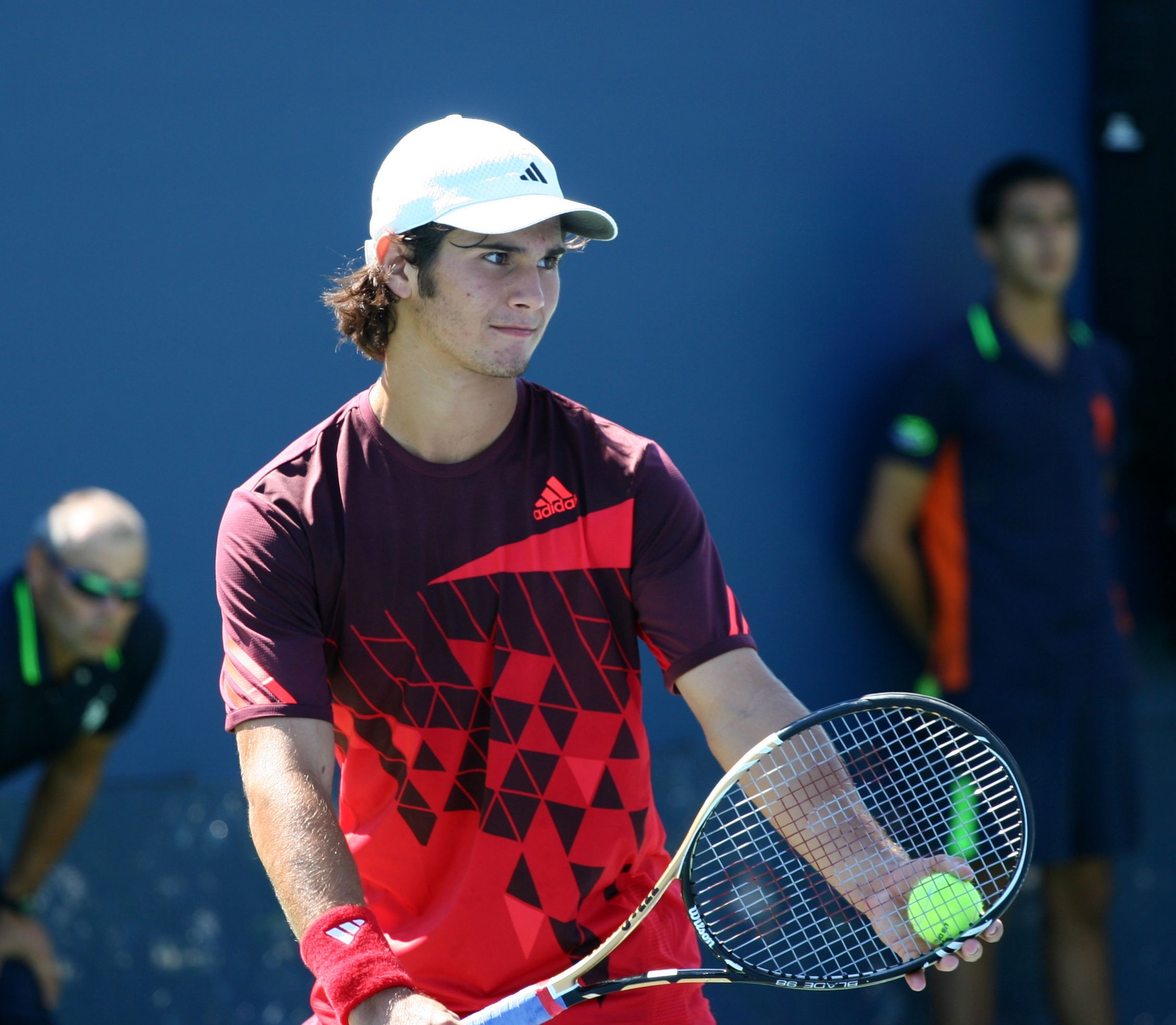 Marcos Giron U.S. Open Juniors Friday, Sept. 9, 2011